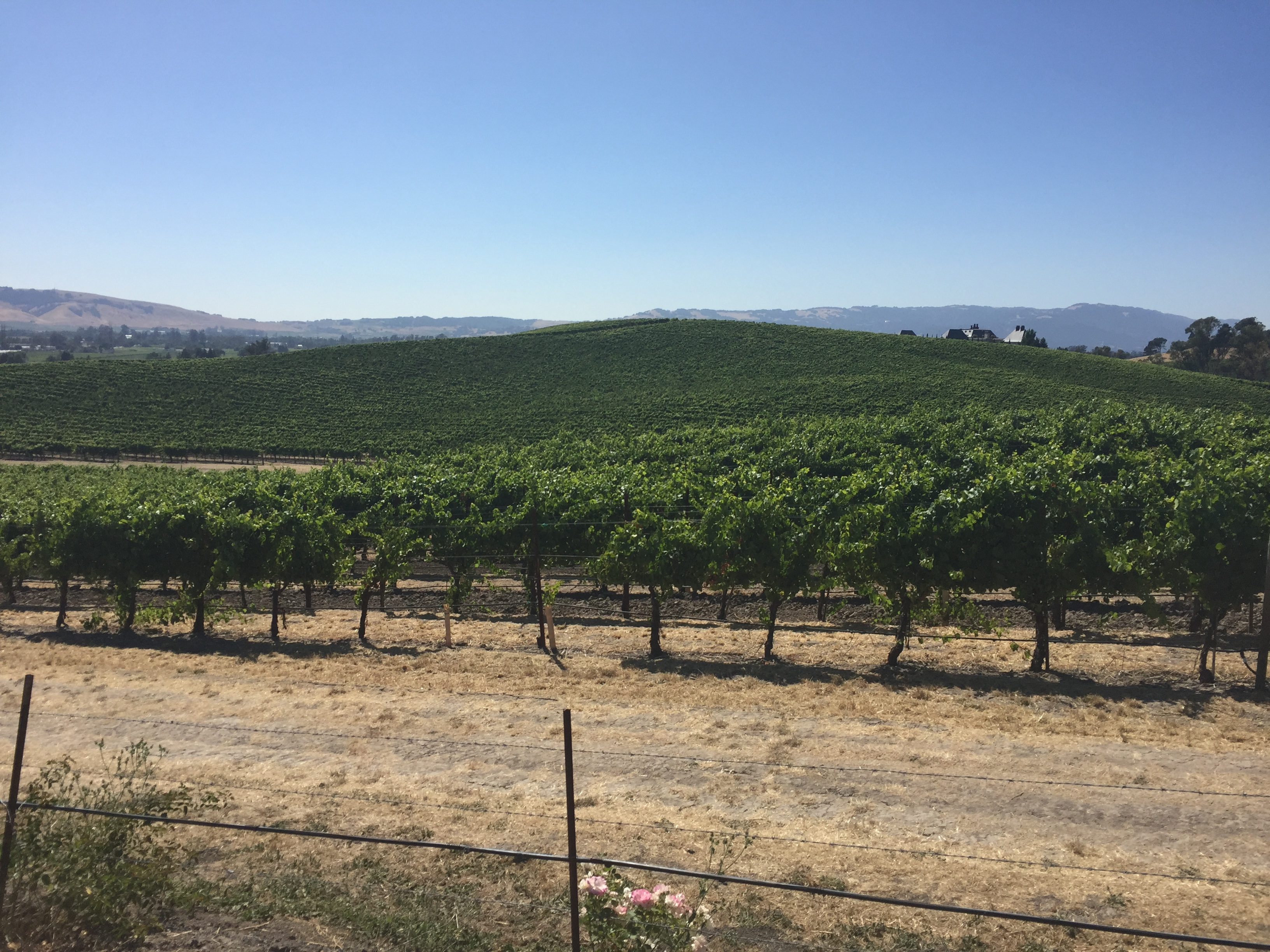 An image of the hill pictured in "Bliss" in 1996 by Charles O'Rear, although taken a couple hundred feet to the right.